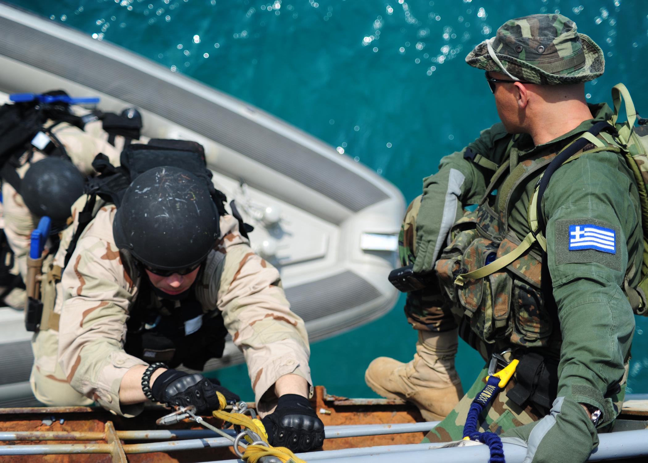 SOUDA BAY, Crete (May 12, 2012) Operations Specialist 3rd Class Craig Sperry, left, a boarding team member assigned to the guided-missile frigate USS Simpson (FFG 56), climbs aboard the training ship Aris under the supervision of a member of the Hellenic Navy special forces during a training exercise at the NATO Maritime Interdiction Operational Training Center during Phoenix Express 2012. Phoenix Express is a multinational maritime exercise between Southern European, North African and U.S. Naval forces intended to improve cooperation among participating nations and help increase safety and security in the Mediterranean Sea. 120512-N-QD416-321